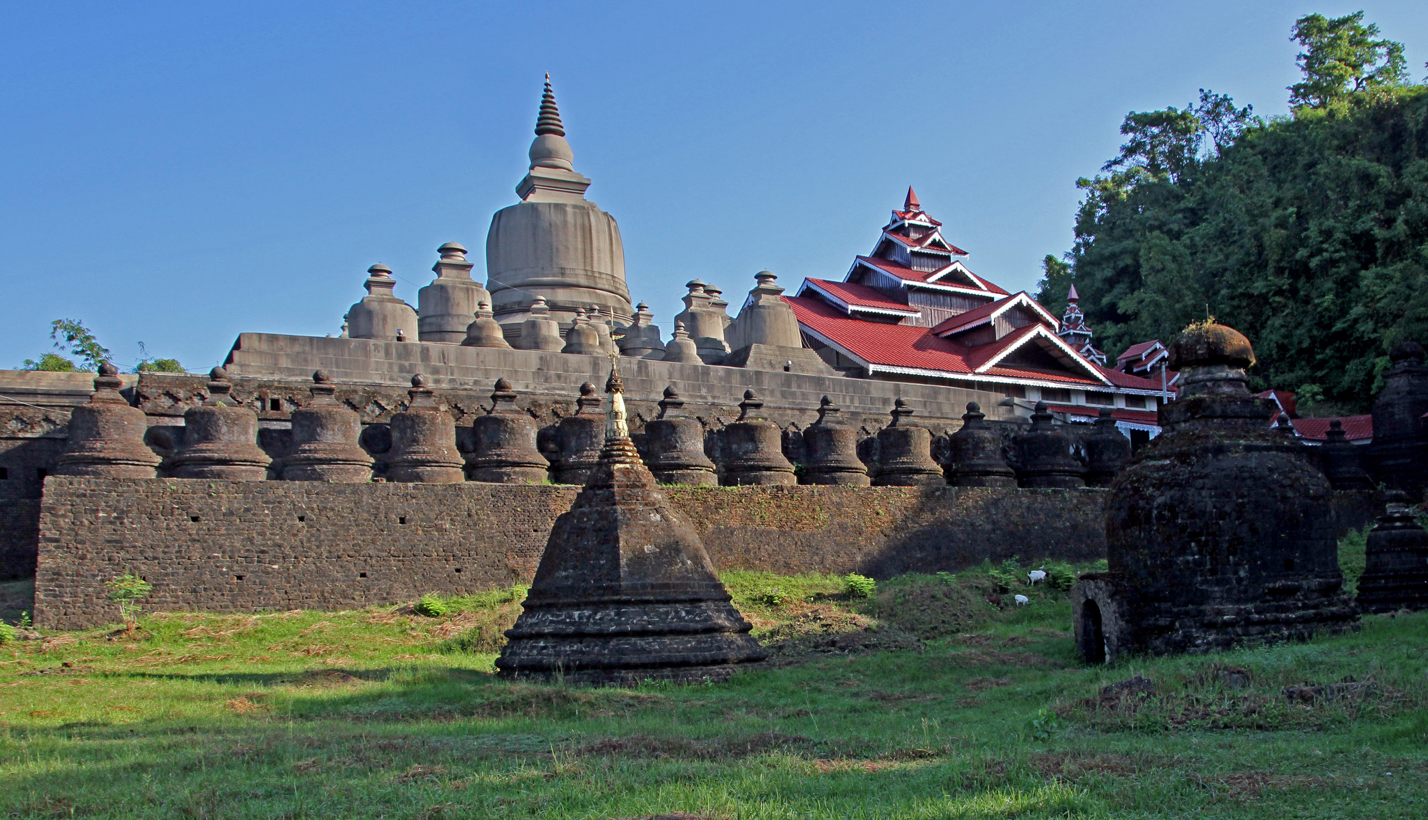 Shite-thaung Temple in Mrauk U, Myanmar.